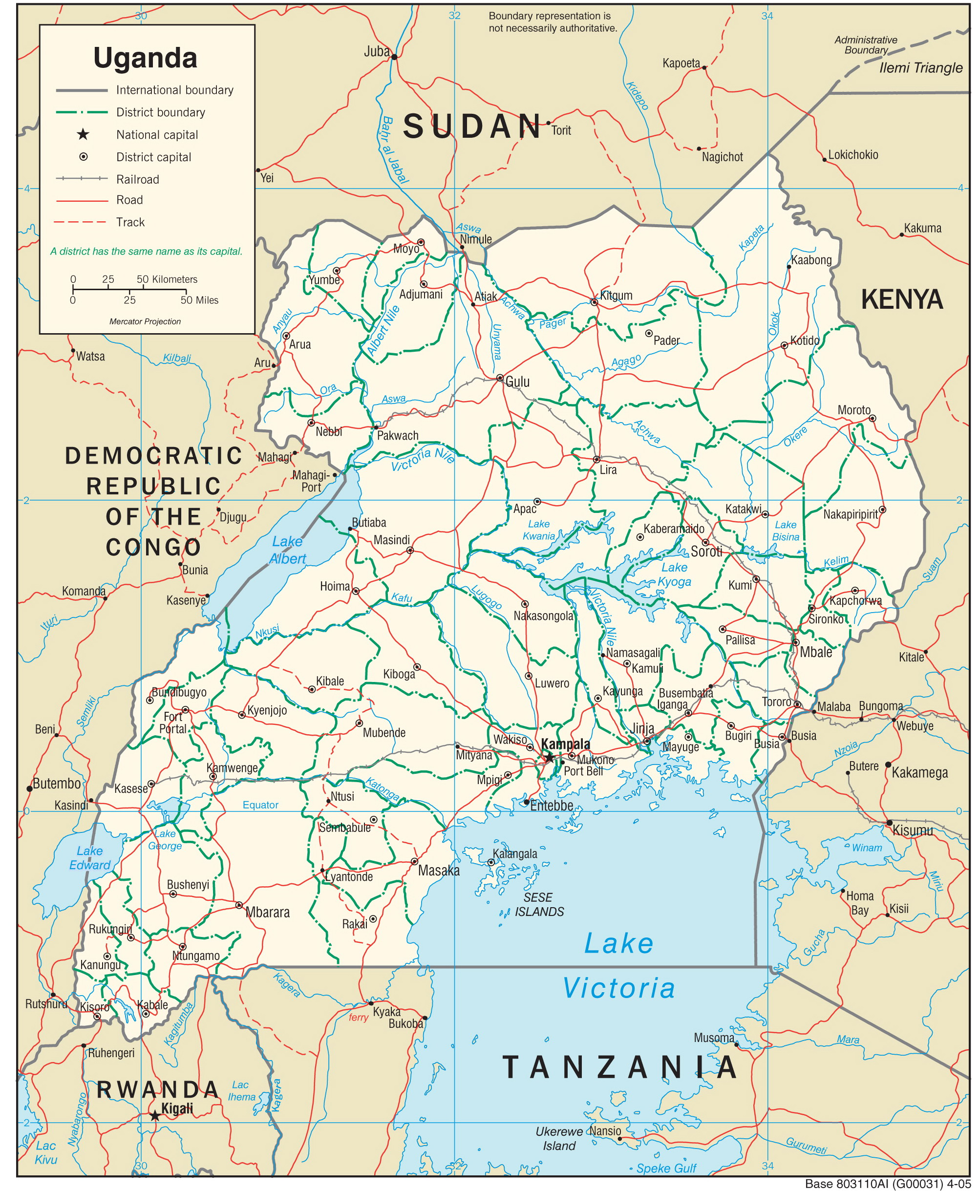 Transport system in Uganda, 2005.